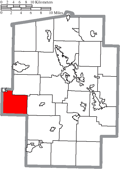 Map of the municipal and township boundaries of Tuscarawas County, Ohio, United States, as of the 2000 census, with the location of Bucks Township highlighted. Township borders are shown only in unincorporated areas in order to differentiate incorporated and unincorporated areas more clearly.